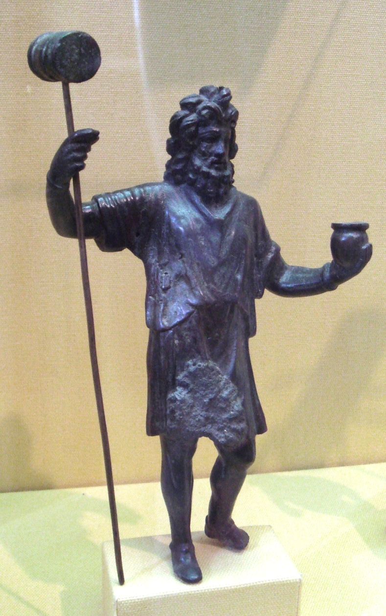 Gaul_god_Sucellus